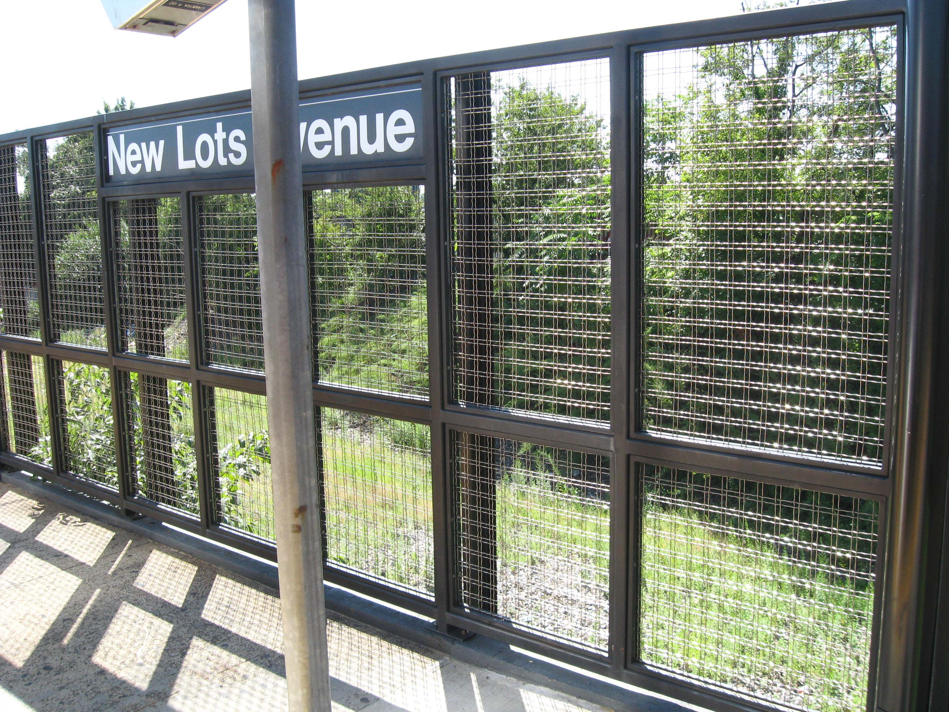 Looking southwest across southbound platform of New Lots Avenue (BMT Canarsie Line) on a sunny midday